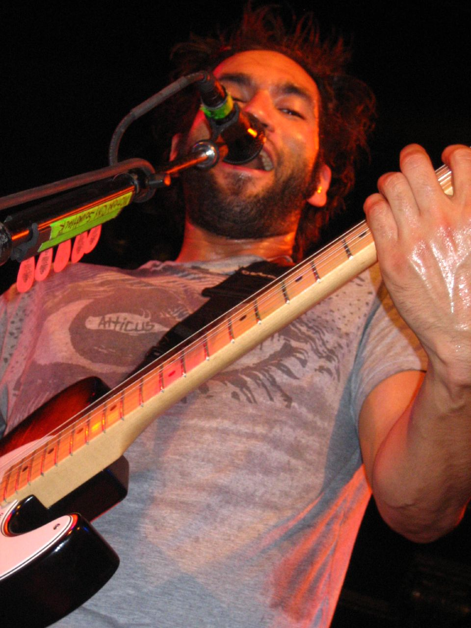 Lead vocalist of Motion City Soundtrack, Justin Pierre.